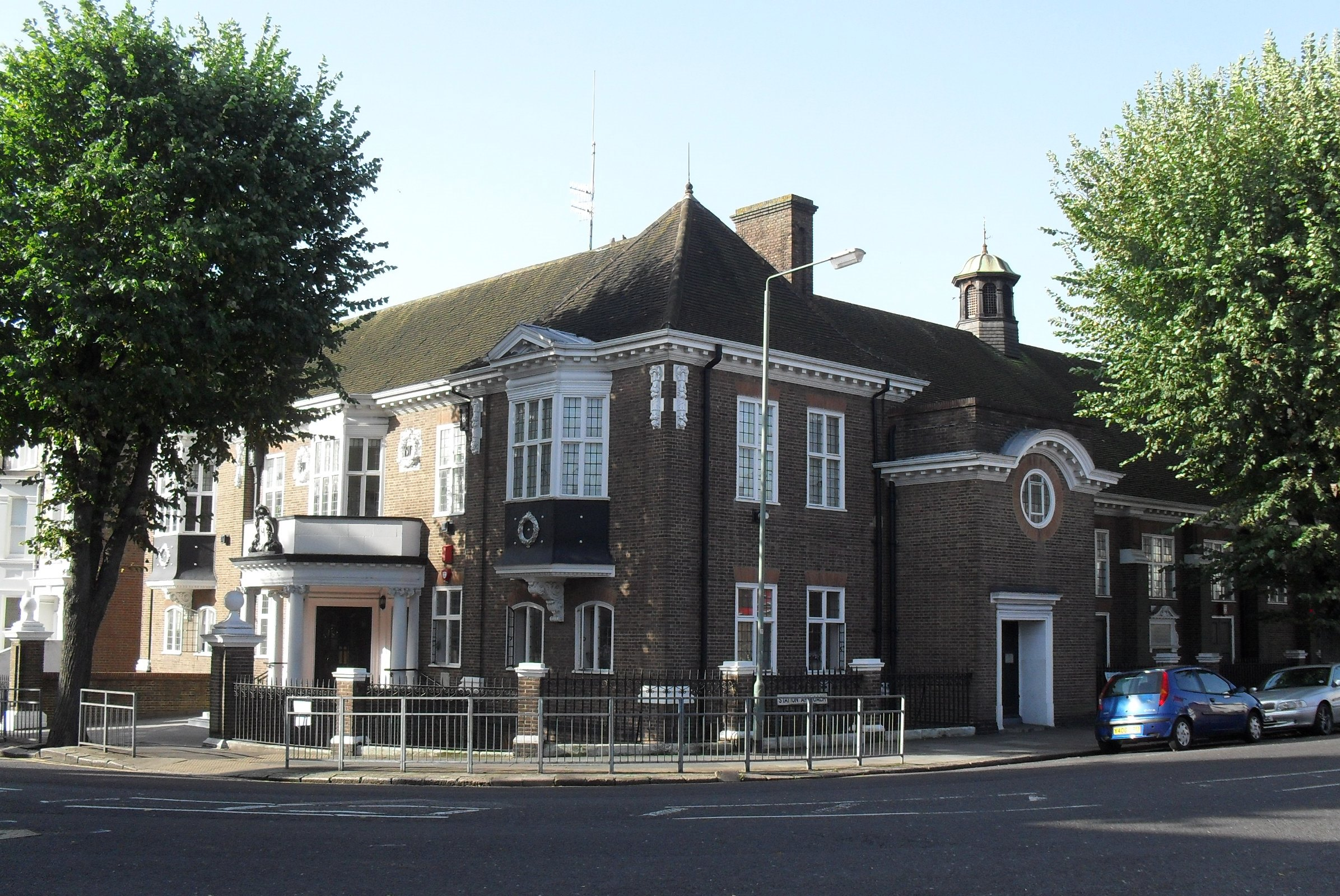 Ralli Hall, 81 Denmark Villas, Hove, City of Brighton and Hove, England. Built as the church hall of All Saints Church in 1913; now a multipurpose community facility owned by the Brighton & Hove Jewish Community group. Listed at Grade II by English Heritage (NHLE Code 1298671)